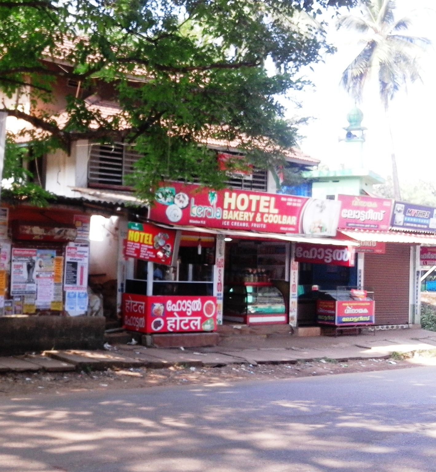 Bus stop in front of Nilambur Railway Station, T.K.Colony Road, Chandakunnu, Nilambur, Malappuram District, Kerala,India.